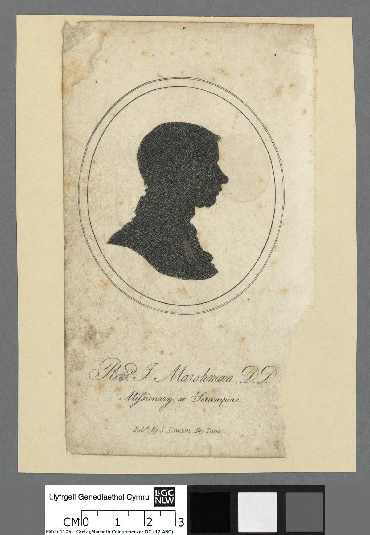 A portrait from the Welsh Portrait Collection at the National Library of Wales. Depicted person: Joshua Marshman – Christian missionary